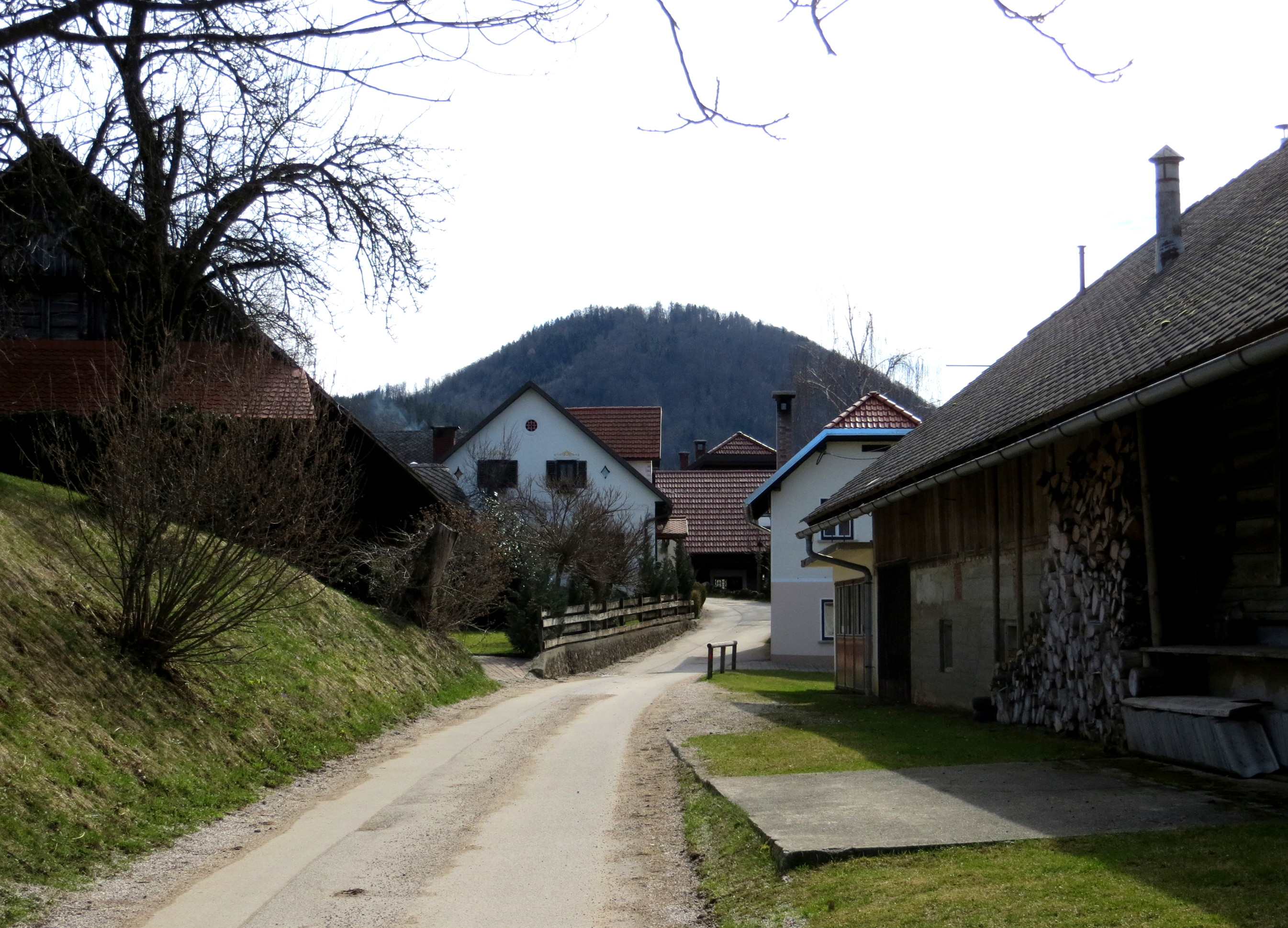 Brezje nad Kamnikom, Municipality of Kamnik, Slovenia